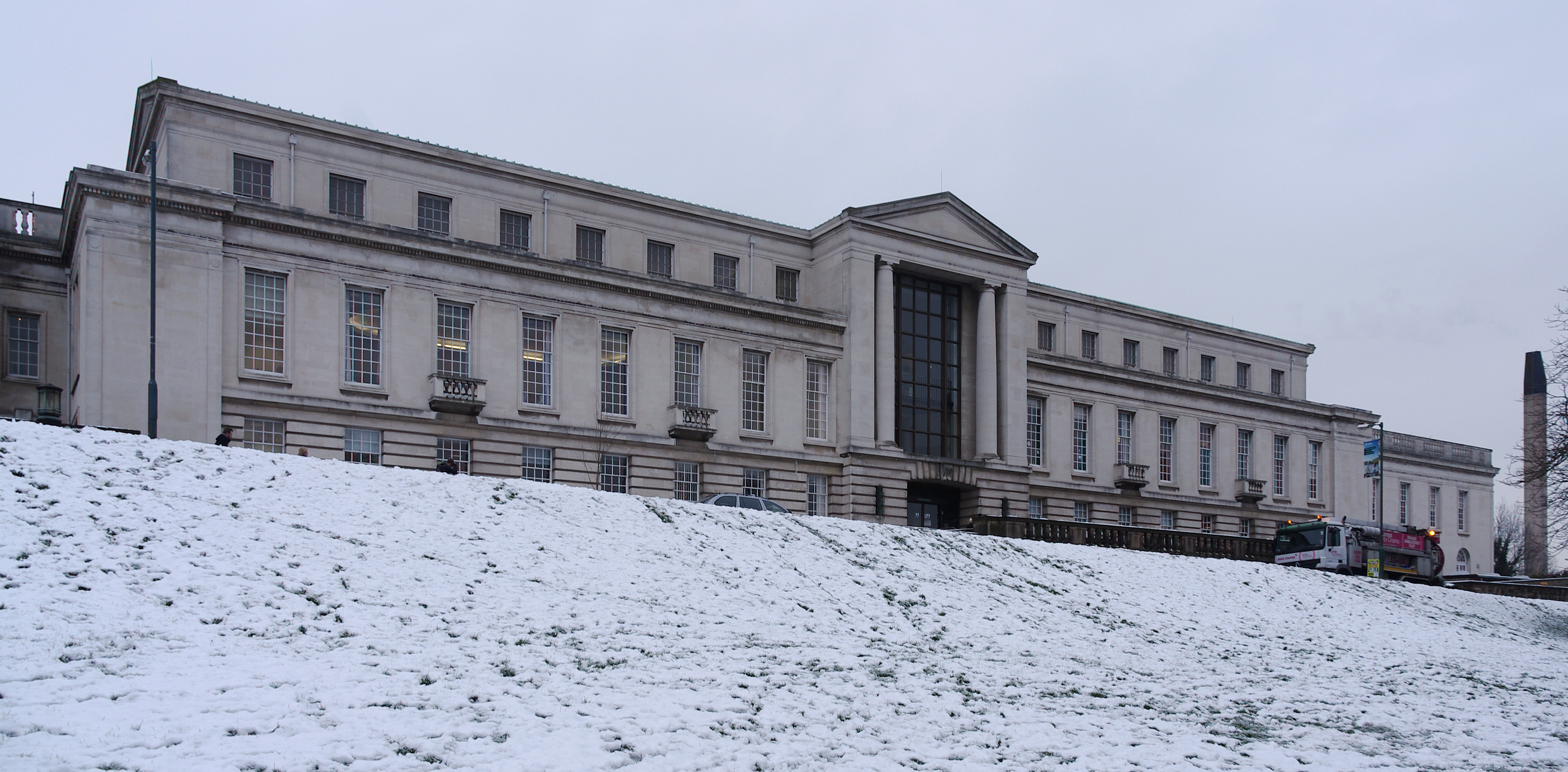 The University of Nottingham's Portland Building on University Park, in the January 2013 snow.